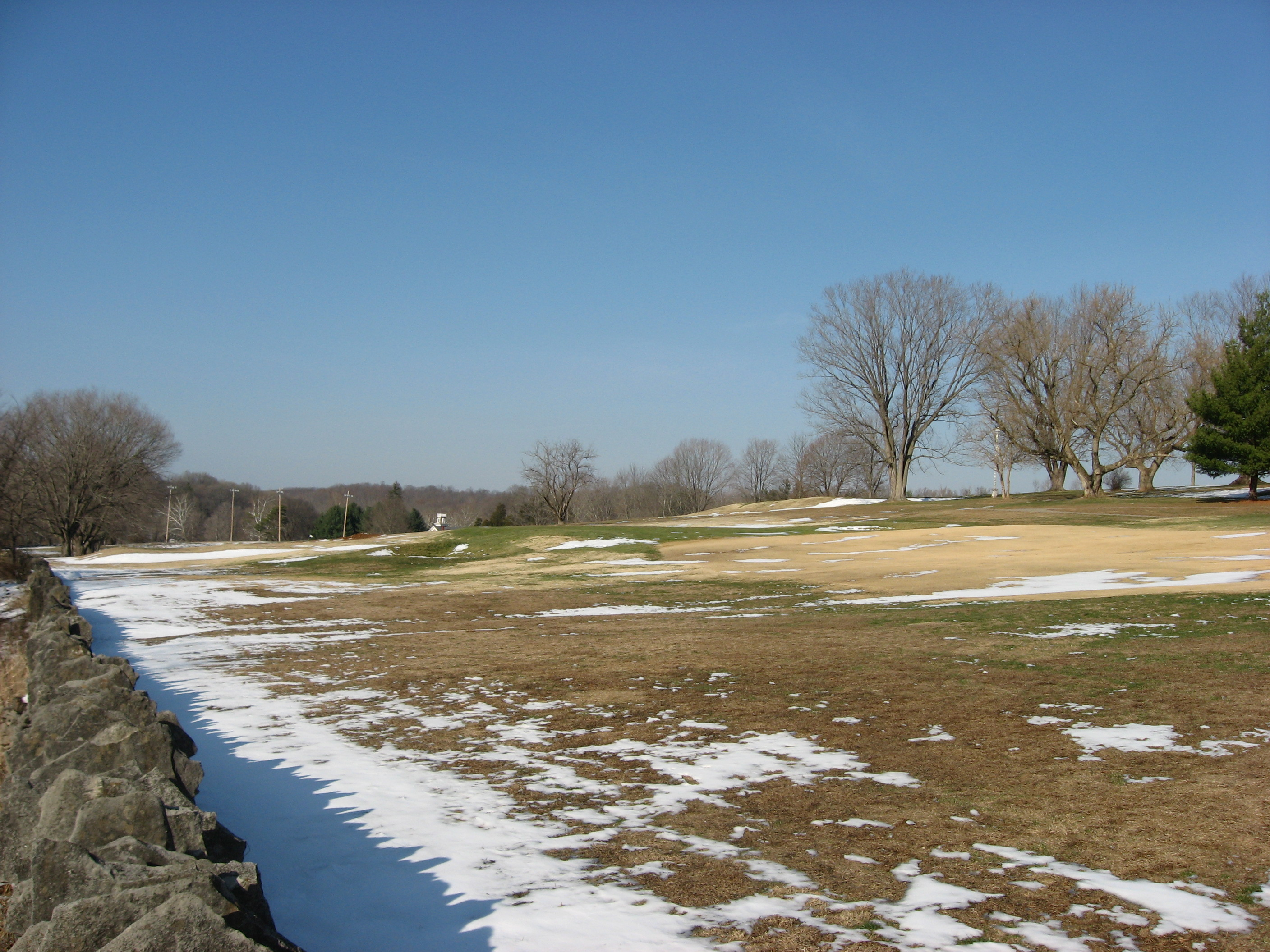 A fairway on the Otis Park Golf Club, located along Tunnelton Road on the southeastern edge of Bedford, Indiana, United States. Founded in the early twentieth century, the golf course was expanded by the Works Progress Administration during the Great Depression, and for this reason, it is listed on the National Register of Historic Places. Visible in the distance is the top of the tower of the William A. Ragsdale House, which is separately listed on the Register.